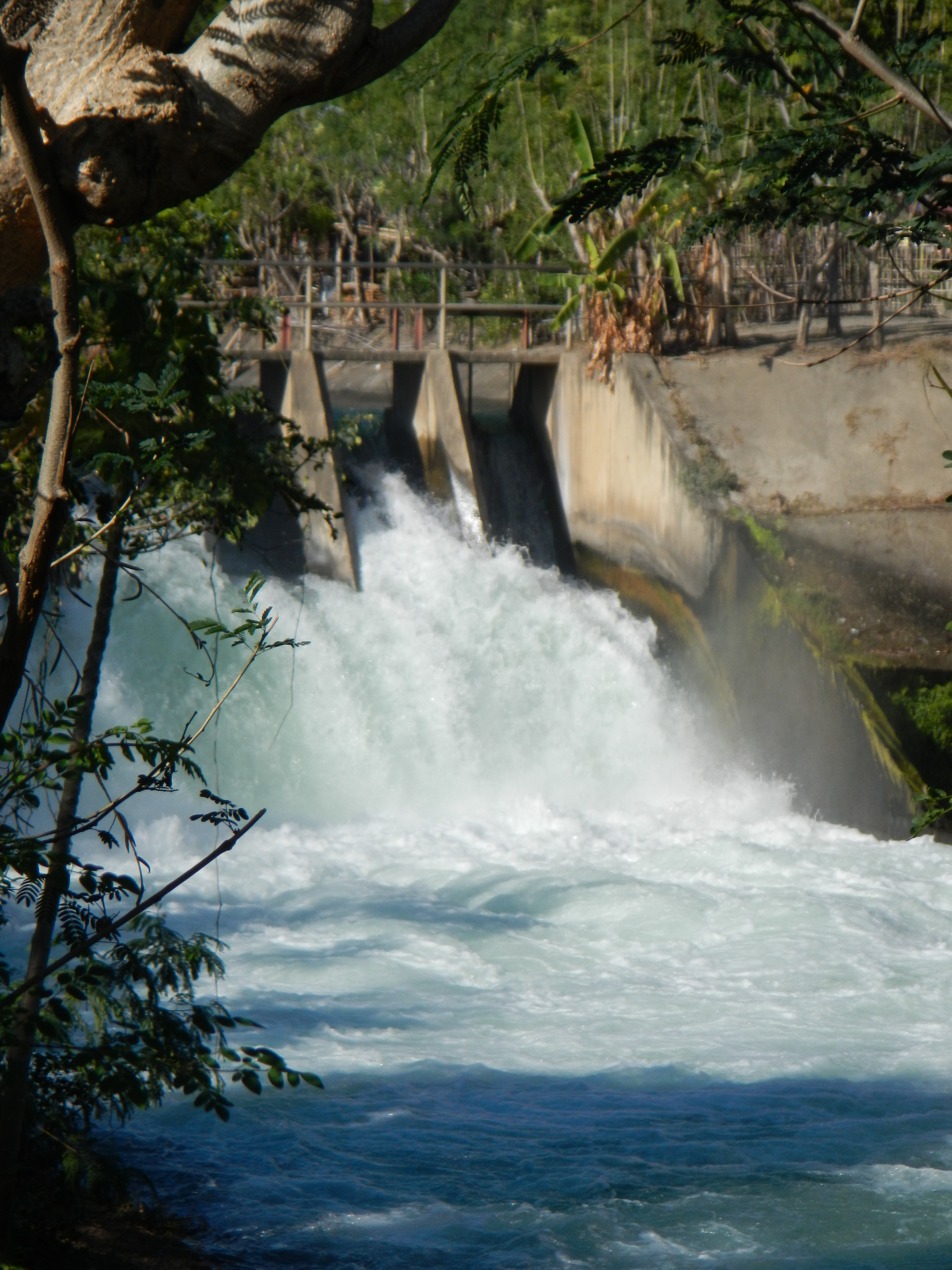 The Casecnan Irrigation and Power Generation Project Rizal, Nueva Ecija[1] The P6.75-B Casecnan Multi-purpose Irrigation and Power Project in Nueva Ecija provides irrigation to more than 26,920 hectares of new farms in the municipalities of Munoz, Talugtog, Guimba, Cuyapo, and Nampicuan while at the same time generating some 140 megawatts of power for the Luzon grid that will supply cheap electricity to millions of people in Luzon including Metro Manila. The project is expected to increase the annual rice production to 834,000 metric tons of milled rice nationwide. With ample supply of water, fishponds in Central Luzon are expected to mushroom as farmers would be encourage to build fishponds for tilapia, bangus (milkfish) and catfish. It also gives additional irrigation water to the 55,000 hecatres of land in upper Pampanga River Integrated Irrigation System by rehabilitating and enlarging canals and structures, including the dredging and lining of major conveyances. [2] [3][4] [5][6][7][8]EXECUTIVE ORDER NO. 281 November 16, 1995 [9]